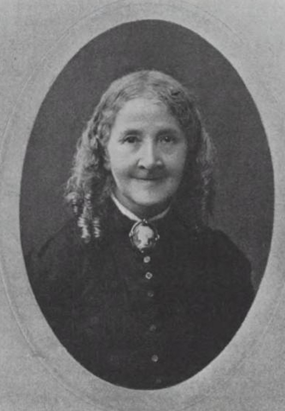 Elizabeth Clarke Wolstenholme Elmy (1833–1918[1]) was a British essayist and poet, who also wrote under the pseudonyms E, Ellis, Ellis Ethelmer, and Ignota.